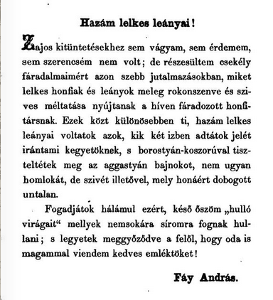 Dedication of his book